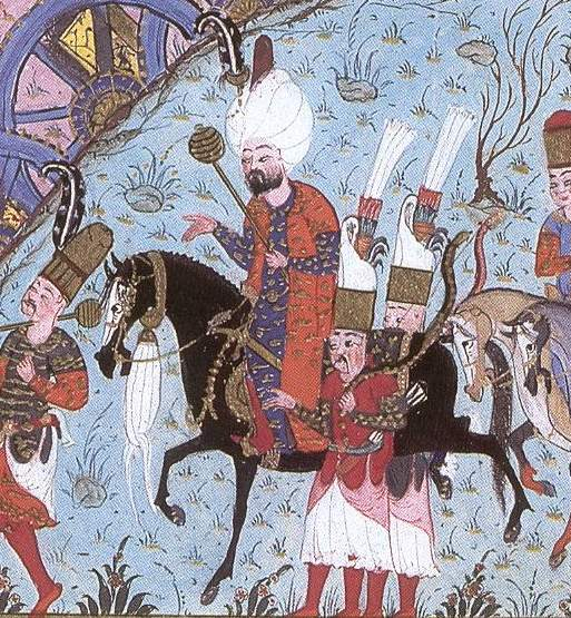 Illustrations of Ottoman soldiers from the Süleymanname